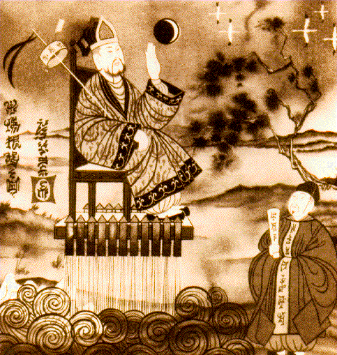 According to one ancient legend, a Chinese official named Wan-Hoo attempted a flight to the moon using a large wicker chair to which were fastened 47 large rockets. Forty seven assistants, each armed with torches, rushed forward to light the fuses. In a moment there was a tremendous roar accompanied by billowing clouds of smoke. When the smoke cleared, the flying chair and Wan-Hu were gone.